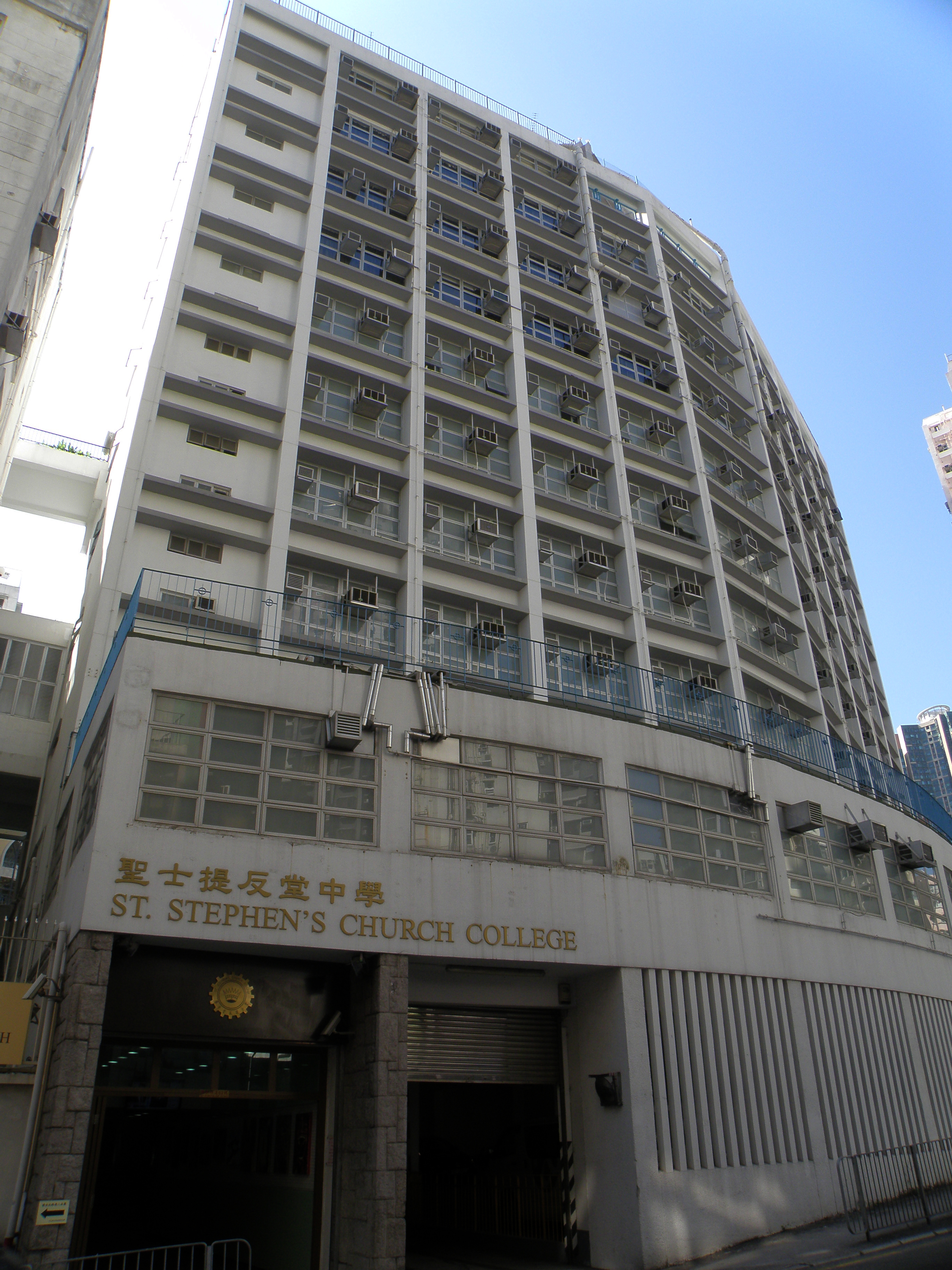 St. Stephen's Church College in Sai Ying Pun, Hong Kong.